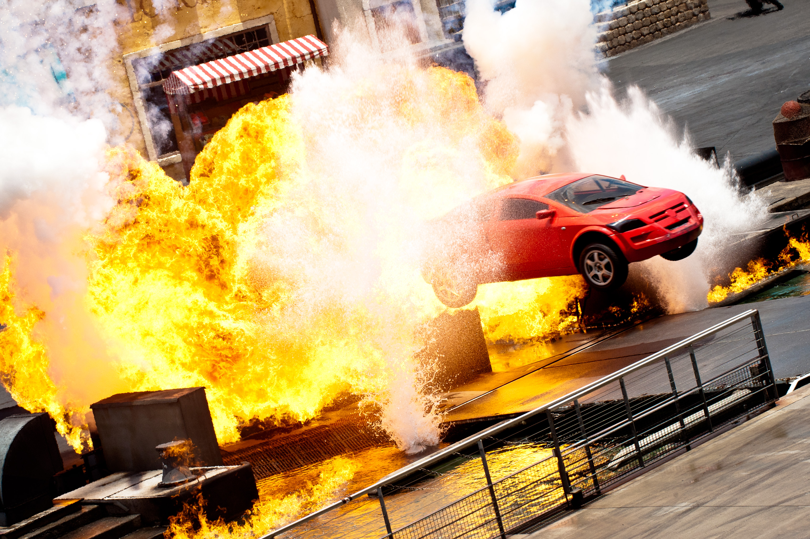 Finale - Lights, Motors, Action - Disney's Hollywood Studios